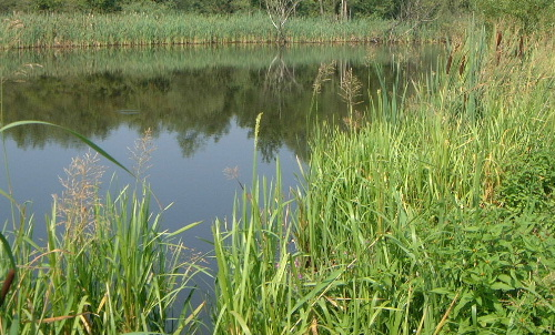 A temperate wetland, my photo released to Wikipedia